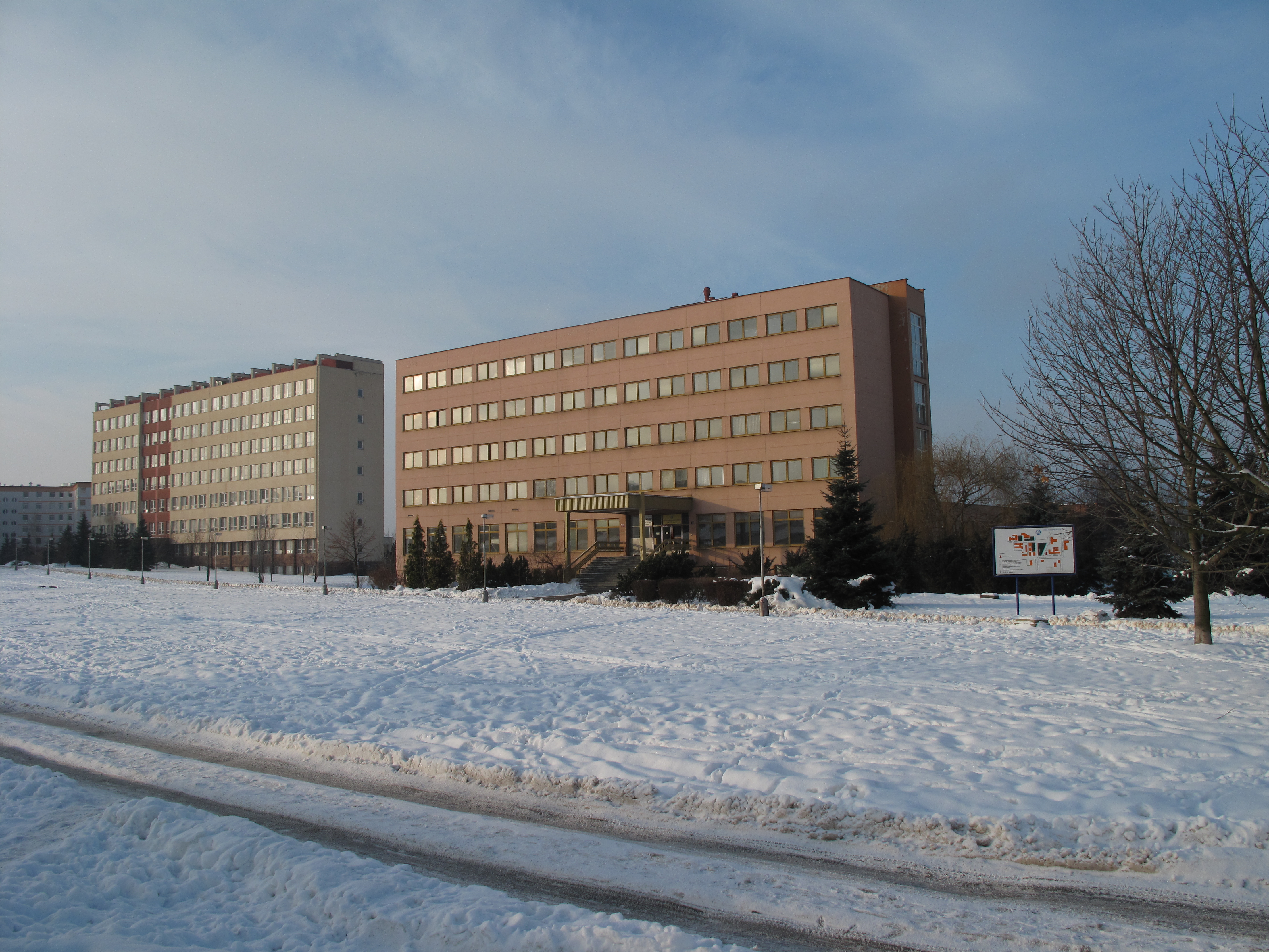 Main building of the Institute of Thermomechanics of the Czech Academy of Sciences (right) and J. Heyrovský Insitute of Physical Cemistry (left), Prague-Libeň, Czech Republic.